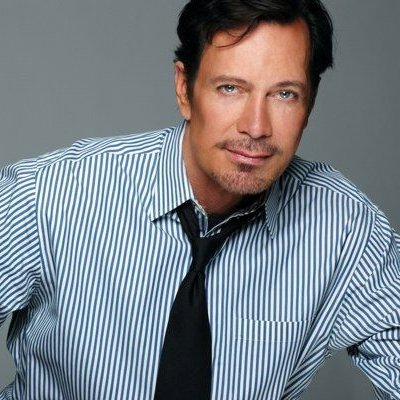 LinkedIn public profile page